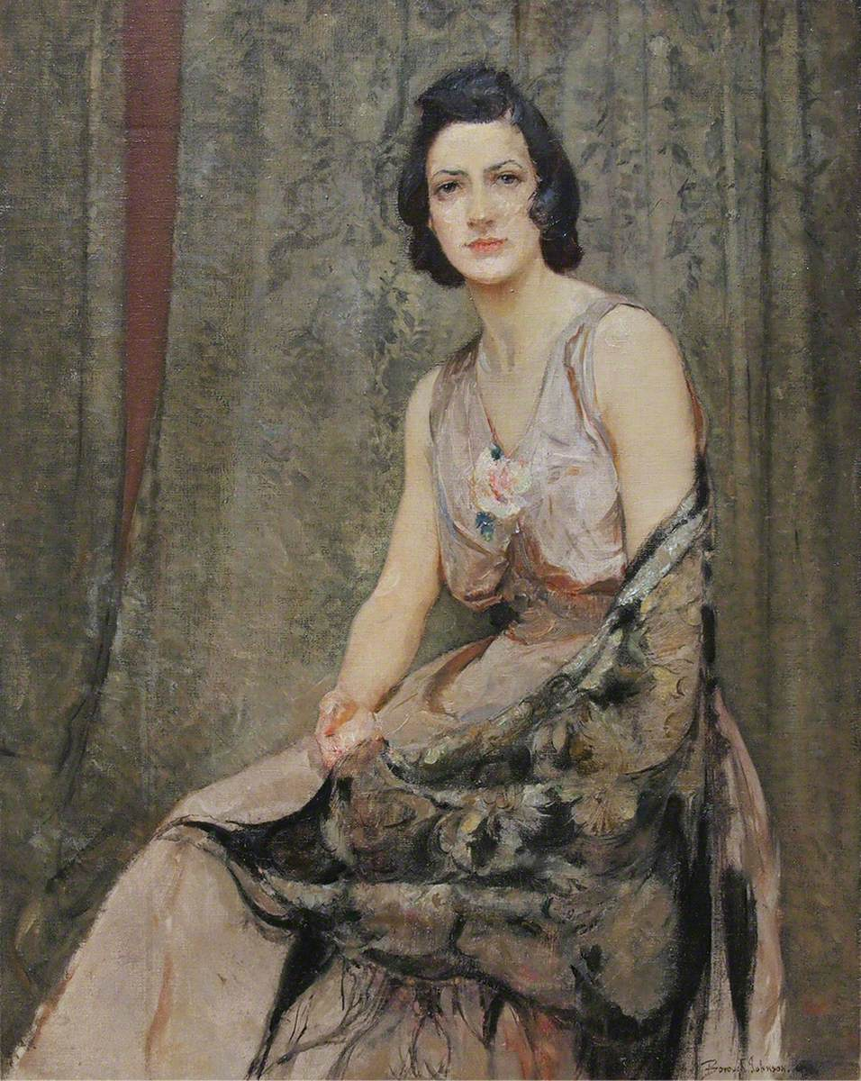 Portrait of Esther Borough Johnson, a British artist, by Ernest Borough Johnson (1866-1949), her husband. Oil on canvas. Bushey Museum and Art Gallery, Hertfordshire, England.